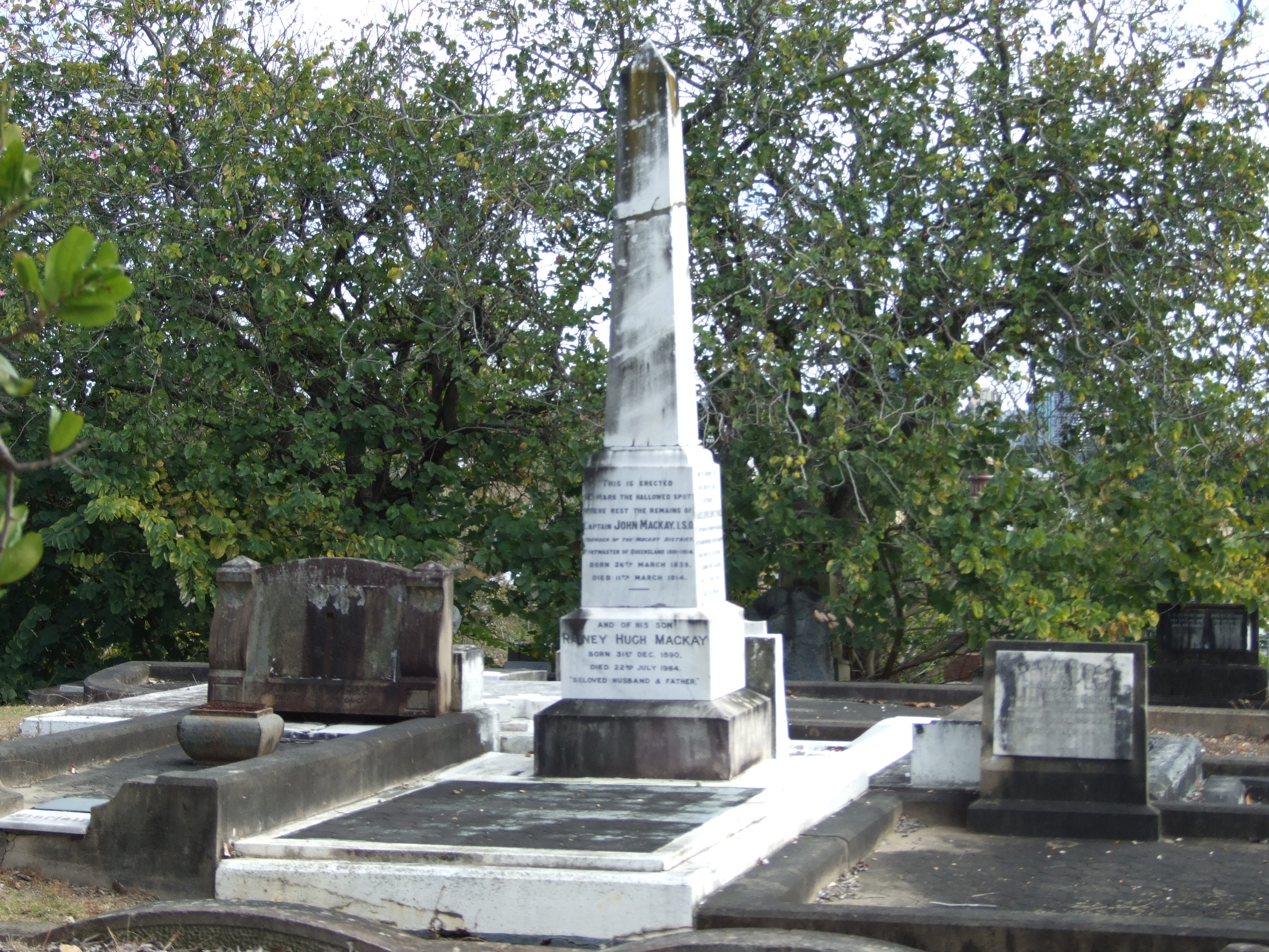 John Mackay's grave at Balmoral Cemetery, Brisbane